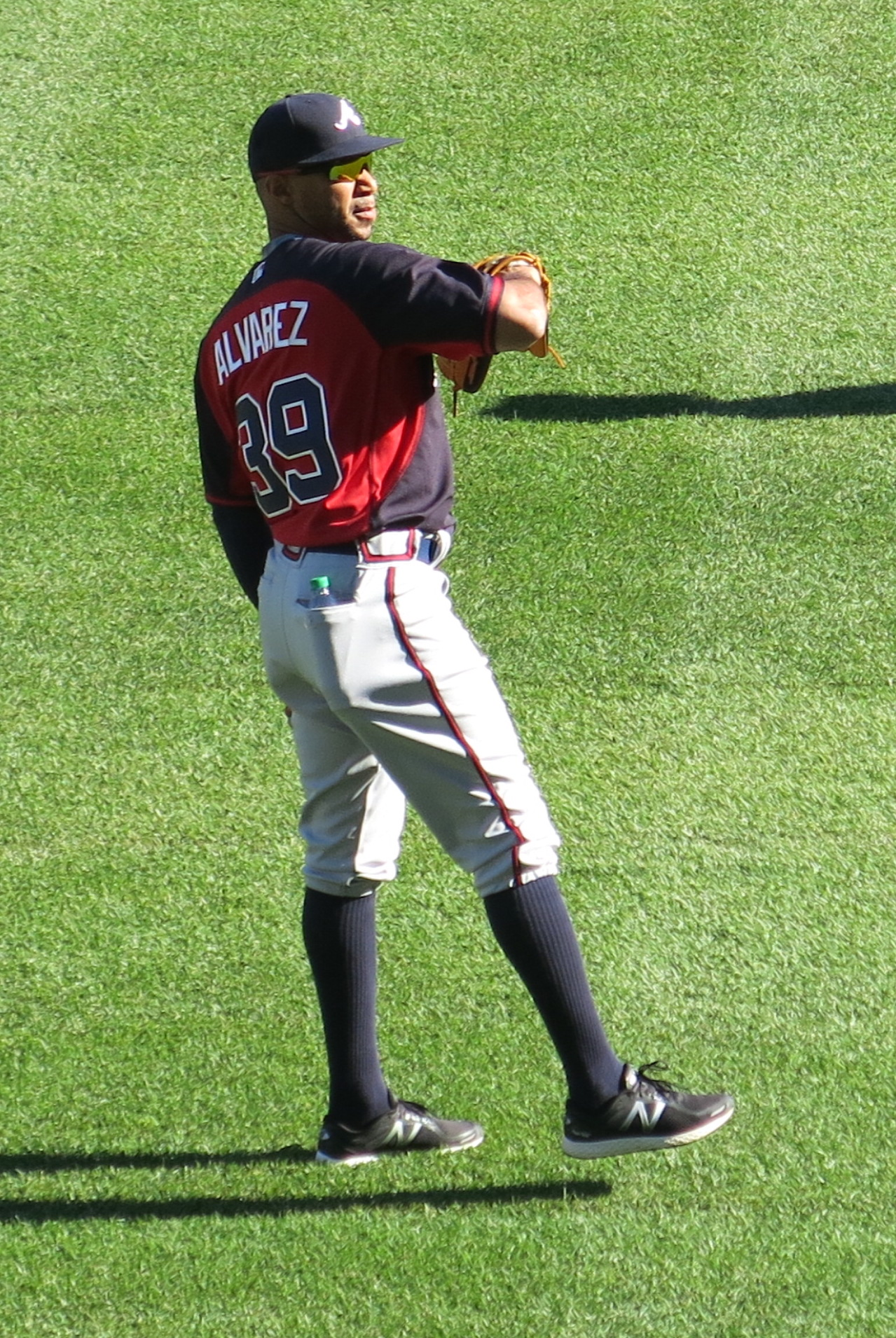 Darío Álvarez of the Atlanta Braves, June 17, 2016.